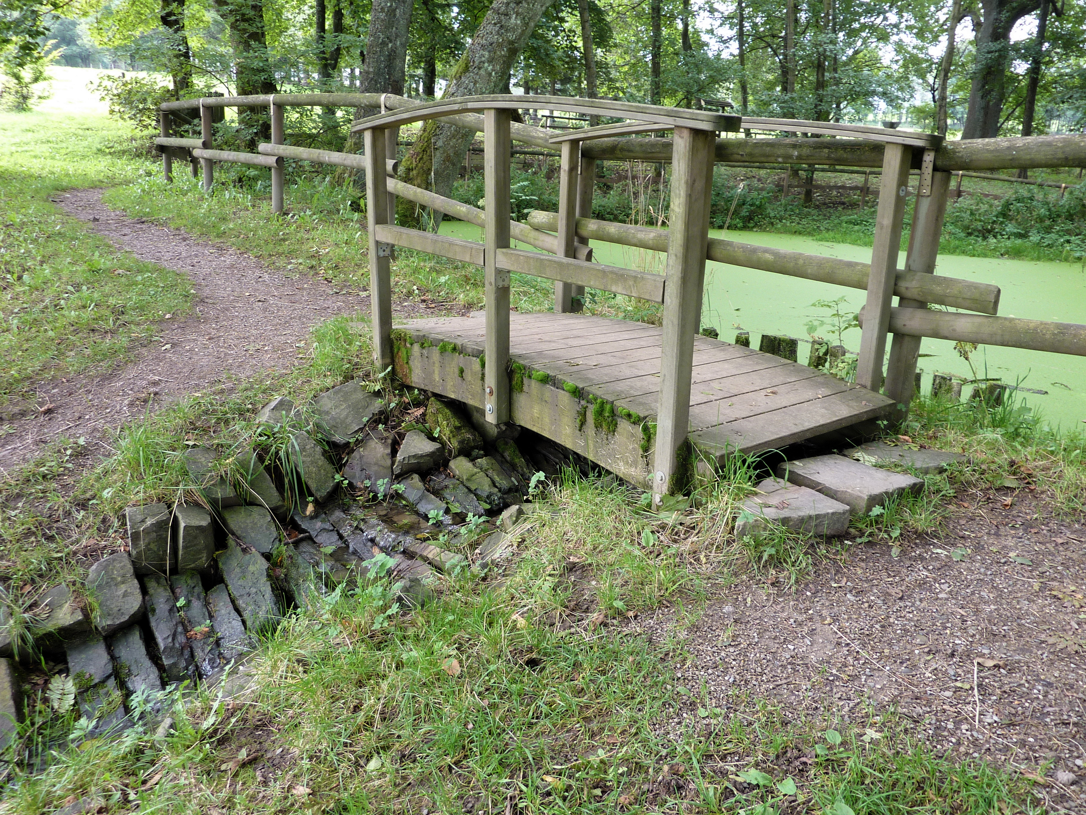 Siegerland (Westphalia, Germany), village of Nenkersdorf (Netphen): Pond with the spring of the river Lahn